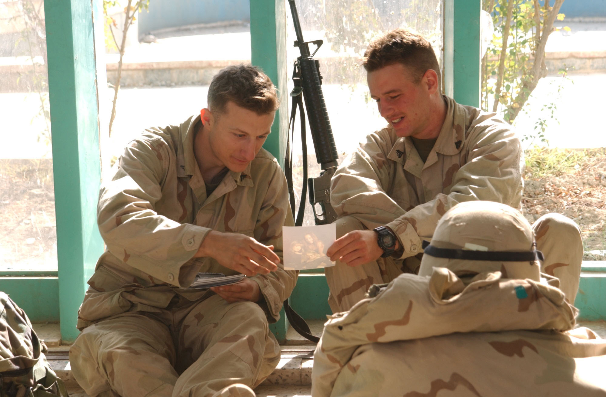 Kandahar, Afghanistan (December 25, 2001) -- U.S. marines from the 26th Marine Expeditionary Unit (Special Operations Capable) share pictures of family and friends received from home on Christmas morning.